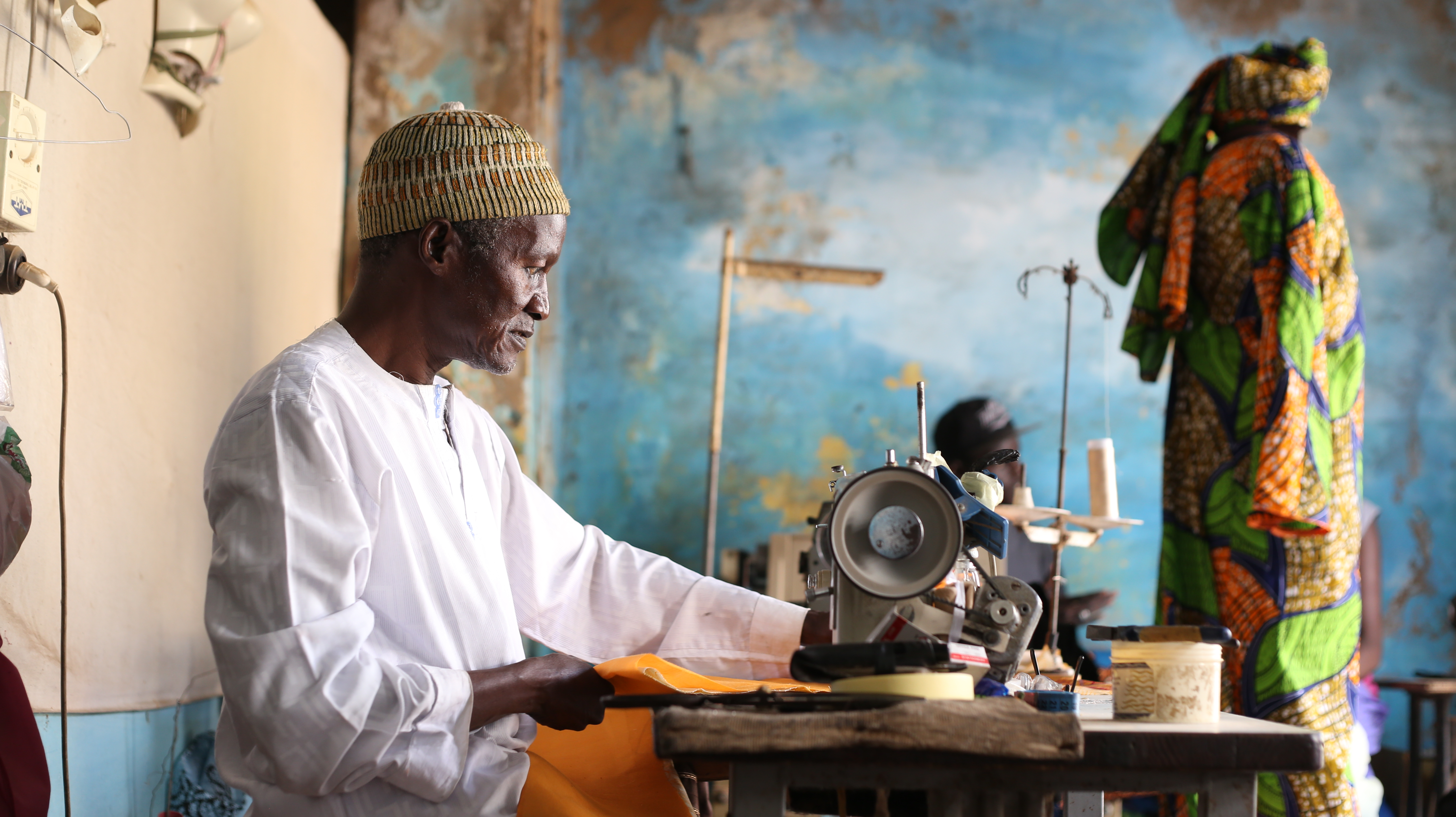 Fashion designer in St Louis. This is an image of Cultural Fashion or Adornment from Senegal